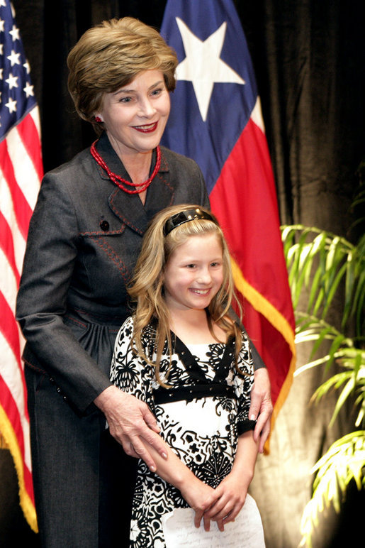 Mrs. Laura Bush hugs Rae Leigh Bradbury Wednesday, April 4, 2007, in Austin, after the 9-year-old introduced Mrs. Bush during the announcement of the future opening of the Texas Regional Office of the National Center for Missing and Exploited Children. Rae Leigh was the first child in the United States to be recovered as a result of an AMBER Alert when she was 8 weeks old in November 1998. So far AMBER Alerts have saved more than 300 young lives in the United States.